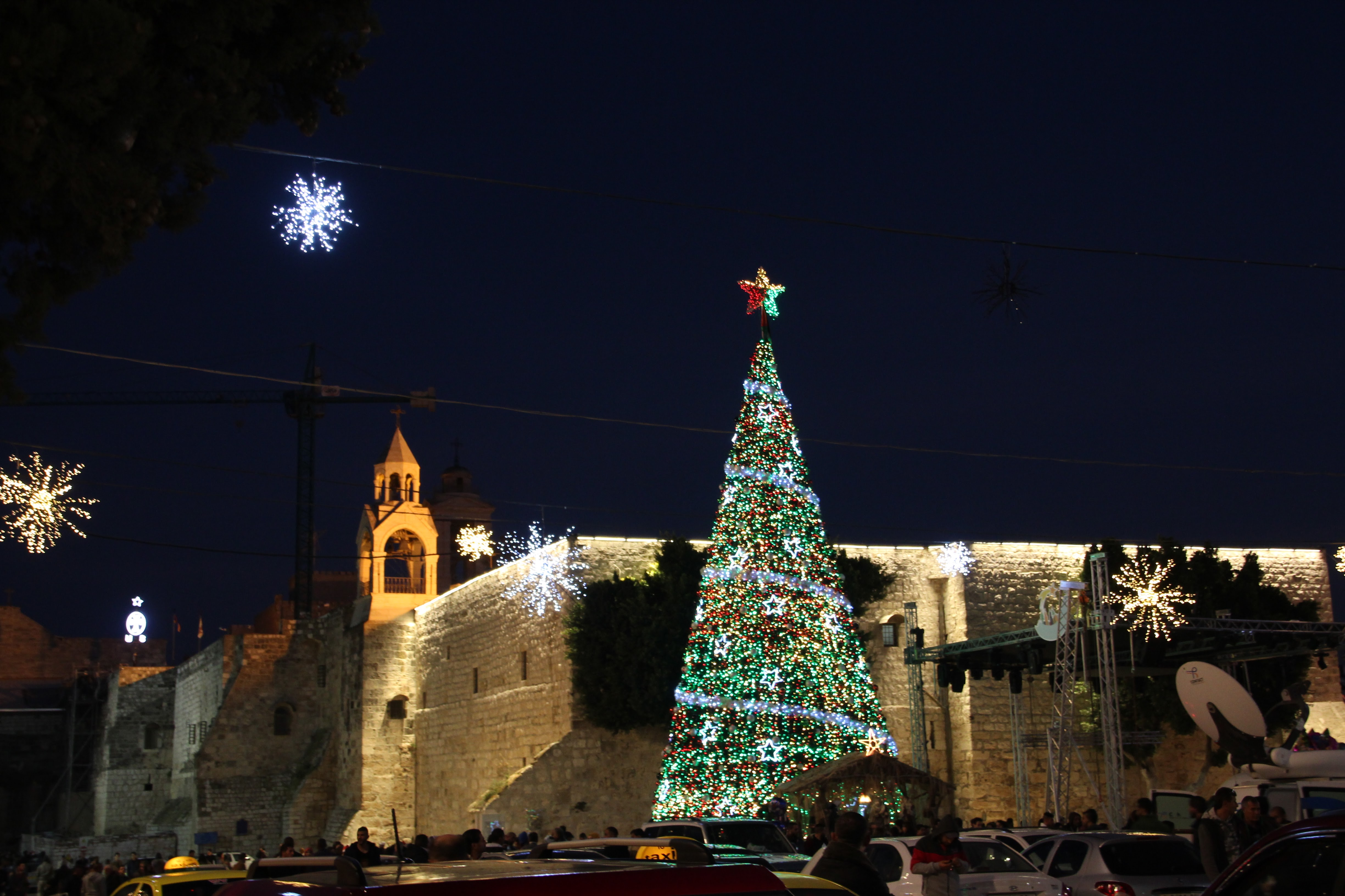 Church of the Nativity and Manger Sqare in Bethlehem, Palestine at night during Christmastime.